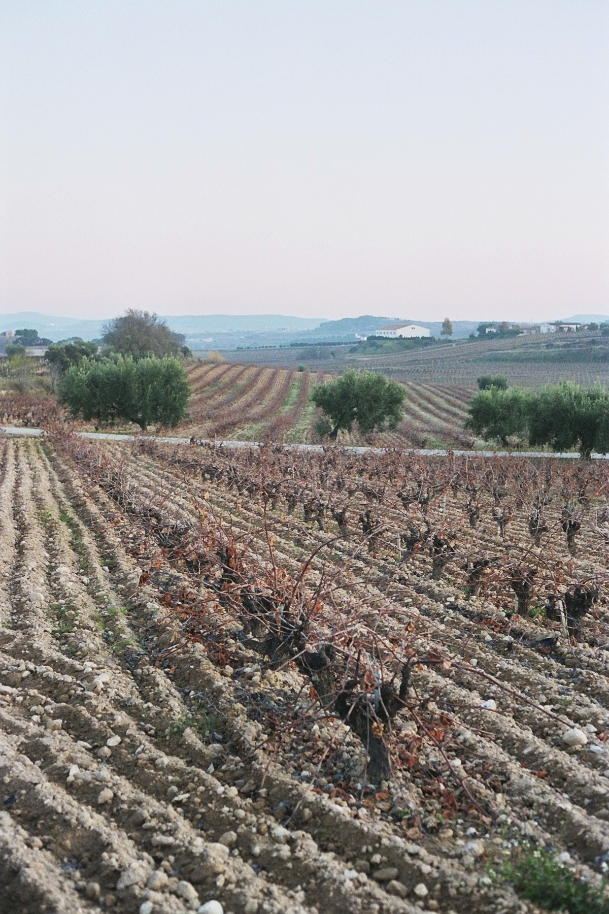 The Penedès region of Catalonia and its vineyards.